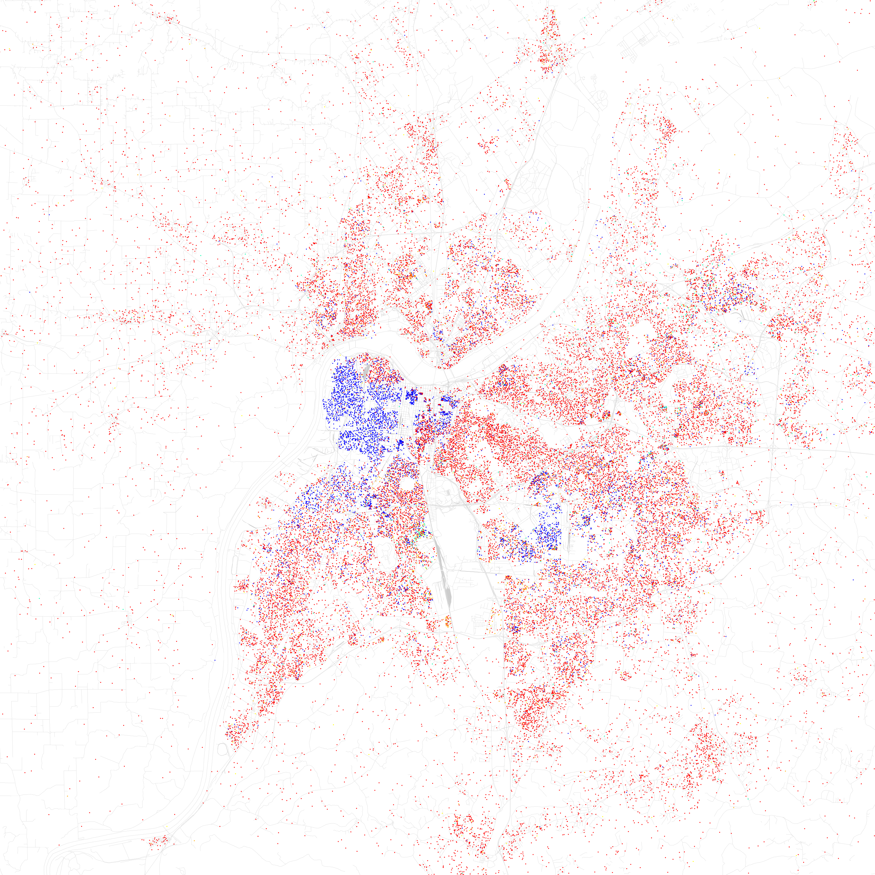 Maps of racial and ethnic divisions in US cities, inspired by Bill Rankin's map of Chicago, updated for Census 2010. Red is White, Blue is Black, Green is Asian, Orange is Hispanic, Yellow is Other, and each dot is 25 residents. Data from Census 2010. Base map © OpenStreetMap, CC-BY-SA